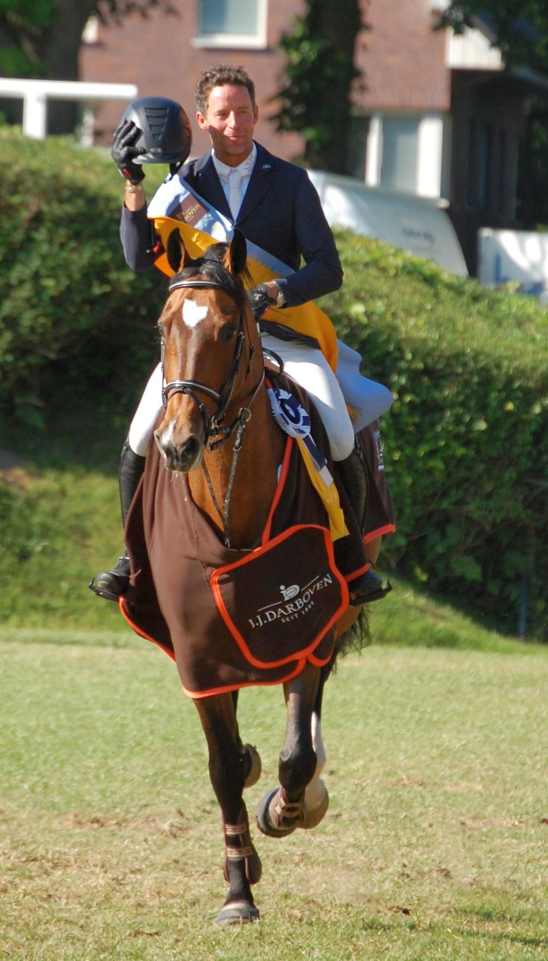 Pato Muente with Zera, winner of the 88th German show jumping derby, Hamburg 2017.